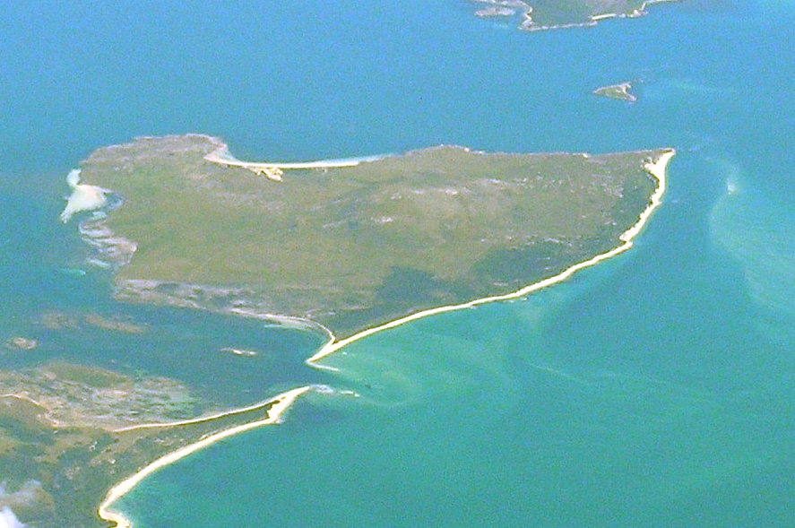 Vansittart Island (Tasmania) view from south east